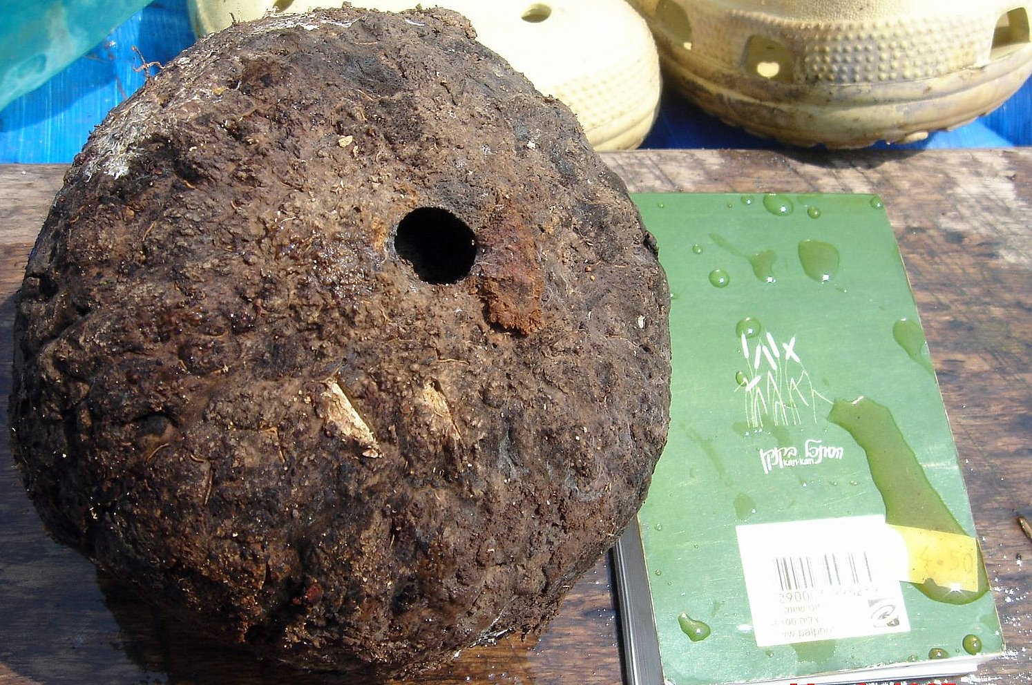 Relatively small fruit of the Brazil nut tree (Bertholletia excelsa). Green notebook photographed for scale - its width is 7.5 centimeters. Collected near Jauaperi River, Lower Rio Branco-Rio Jauaperi Extractive Reserve, Brazil